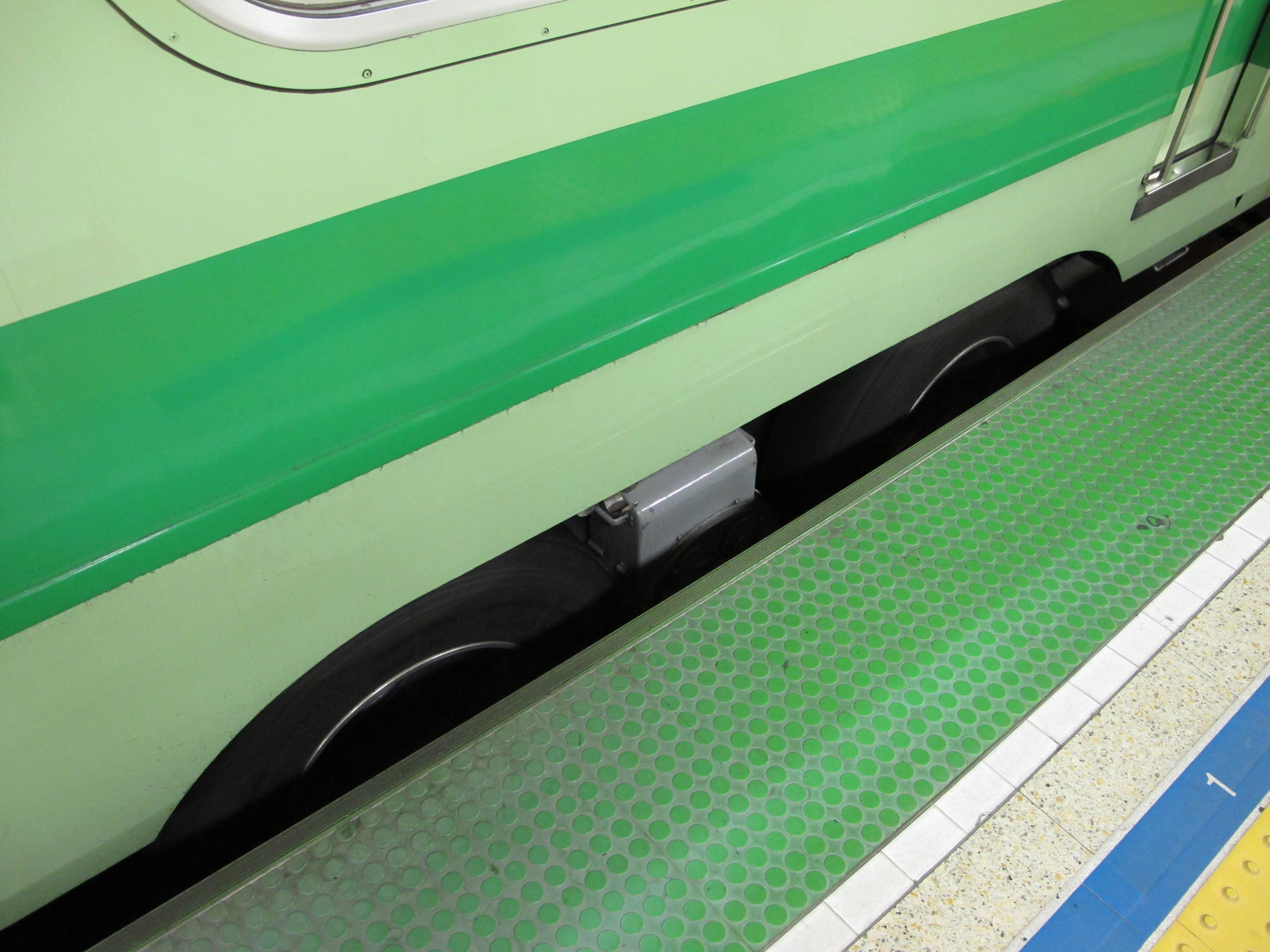 Wheel well of Sapporo Municipal Subway 3000 series.